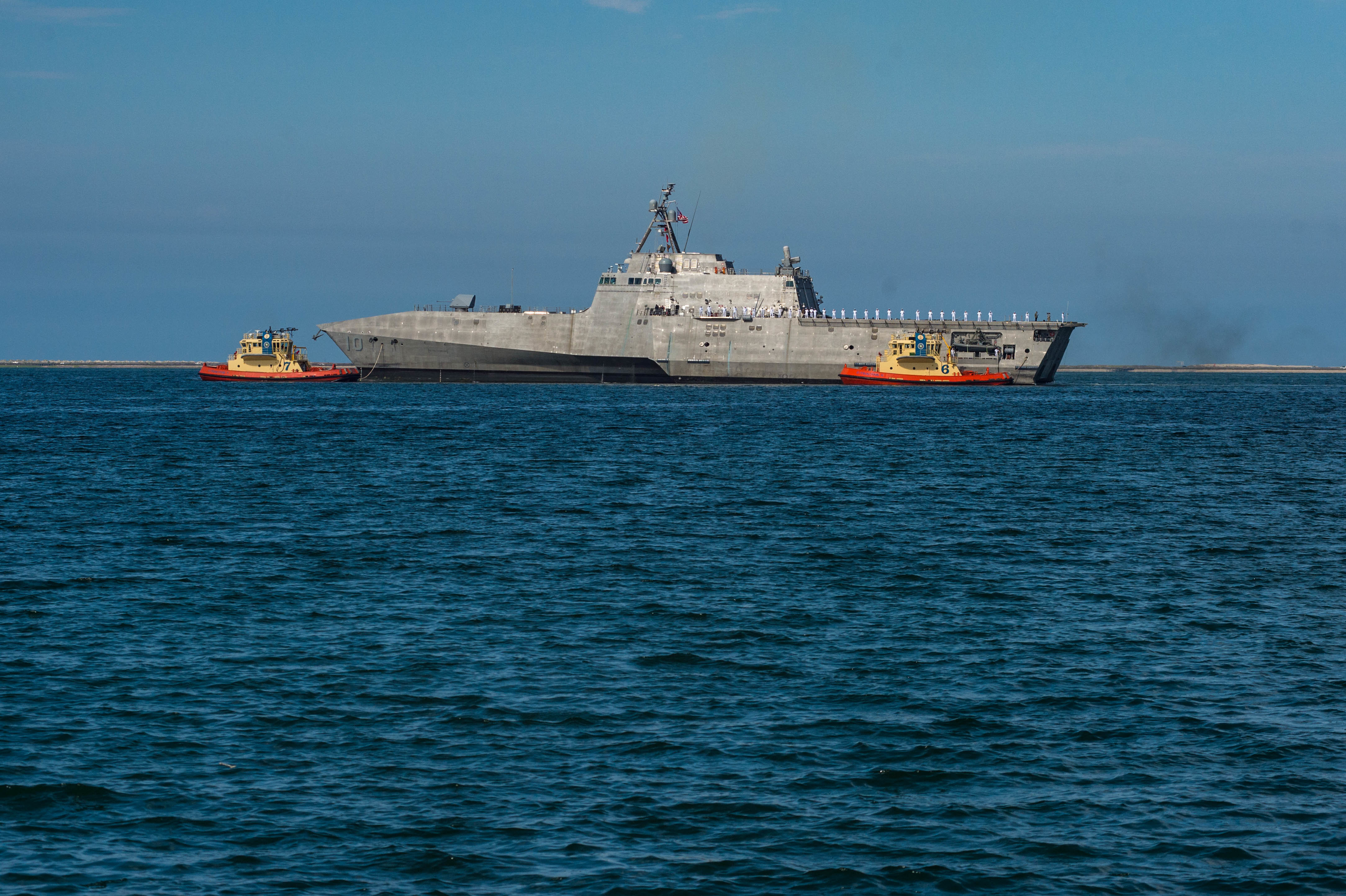 The U.S. Navy littoral combat ship USS Gabrielle Giffords (LCS-10) transits San Diego Bay to arrive at the ship's homeport of Naval Base San Diego, California (USA). Gabrielle Giffords was one of seven littoral combat ships homeported in San Diego.